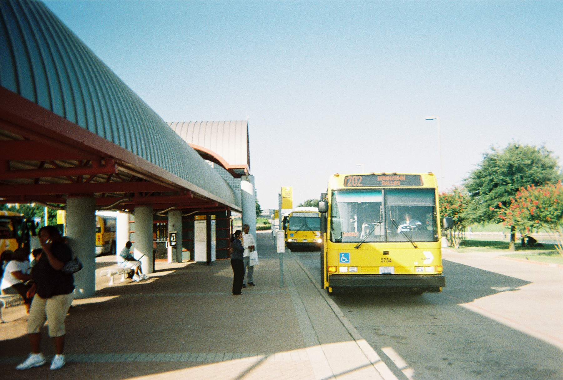 Irving, Texas Picture of bus awaiting departure at North Irving Transit Center.